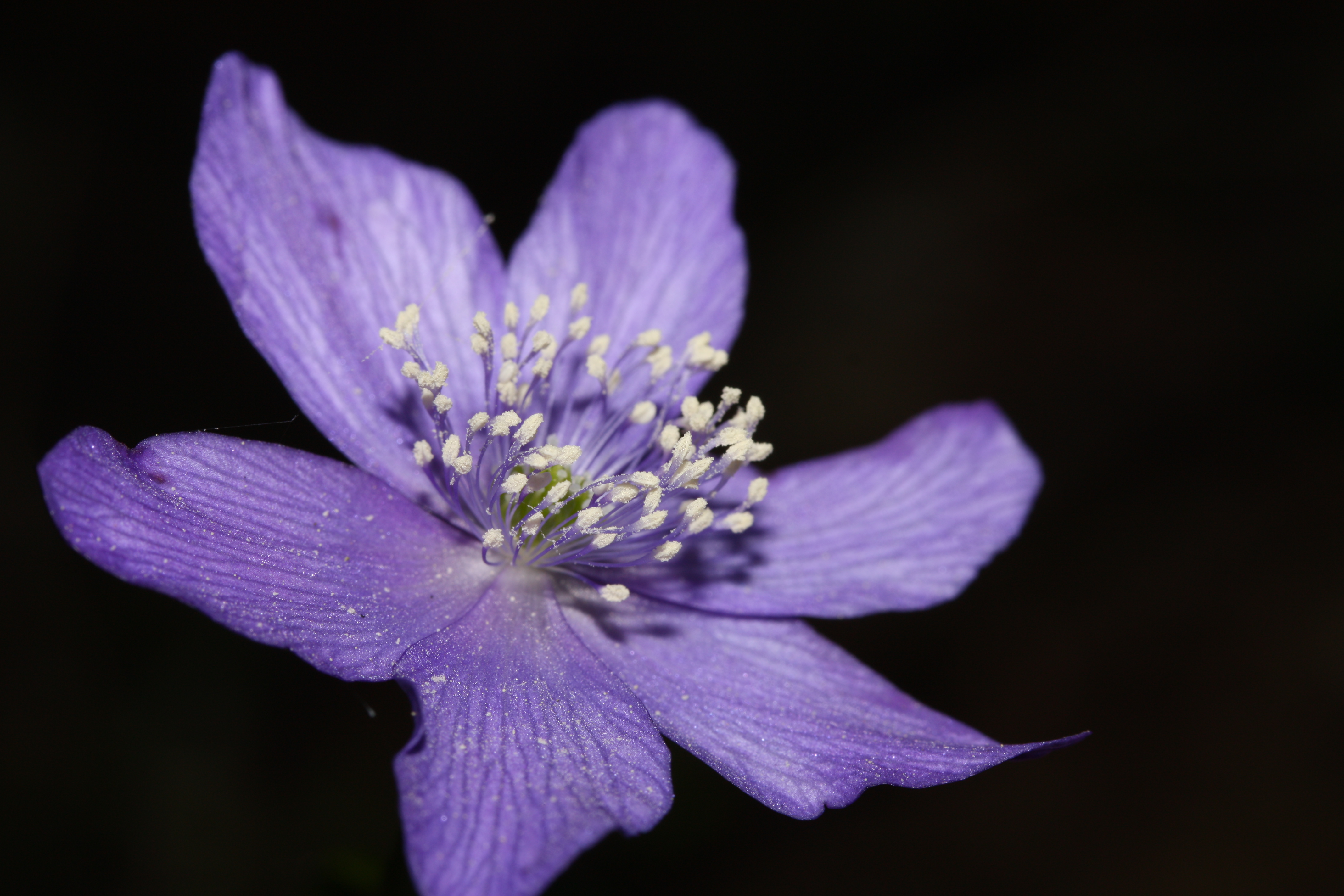 Oregon Anemone